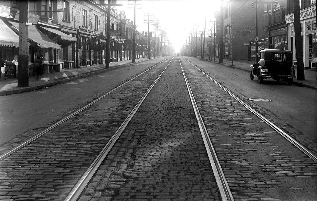 Queen Street East at Logan Avenue, looking east. Loblaws Groceteria to the right of photo. Toronto, Canada.